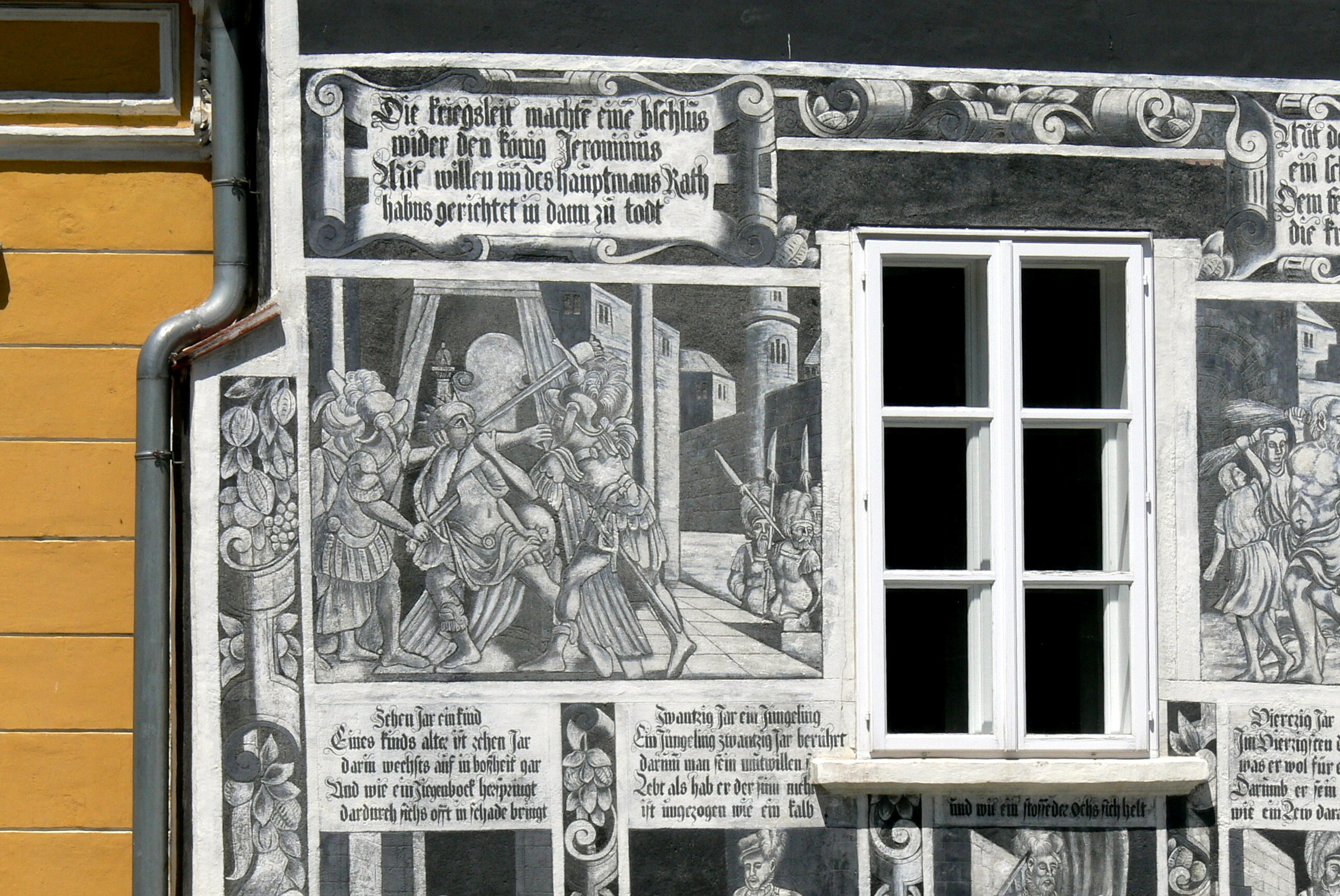 Weitra ( Lower Austria ). Sgraffito house: Murder of Hieronymos of Syracuse.